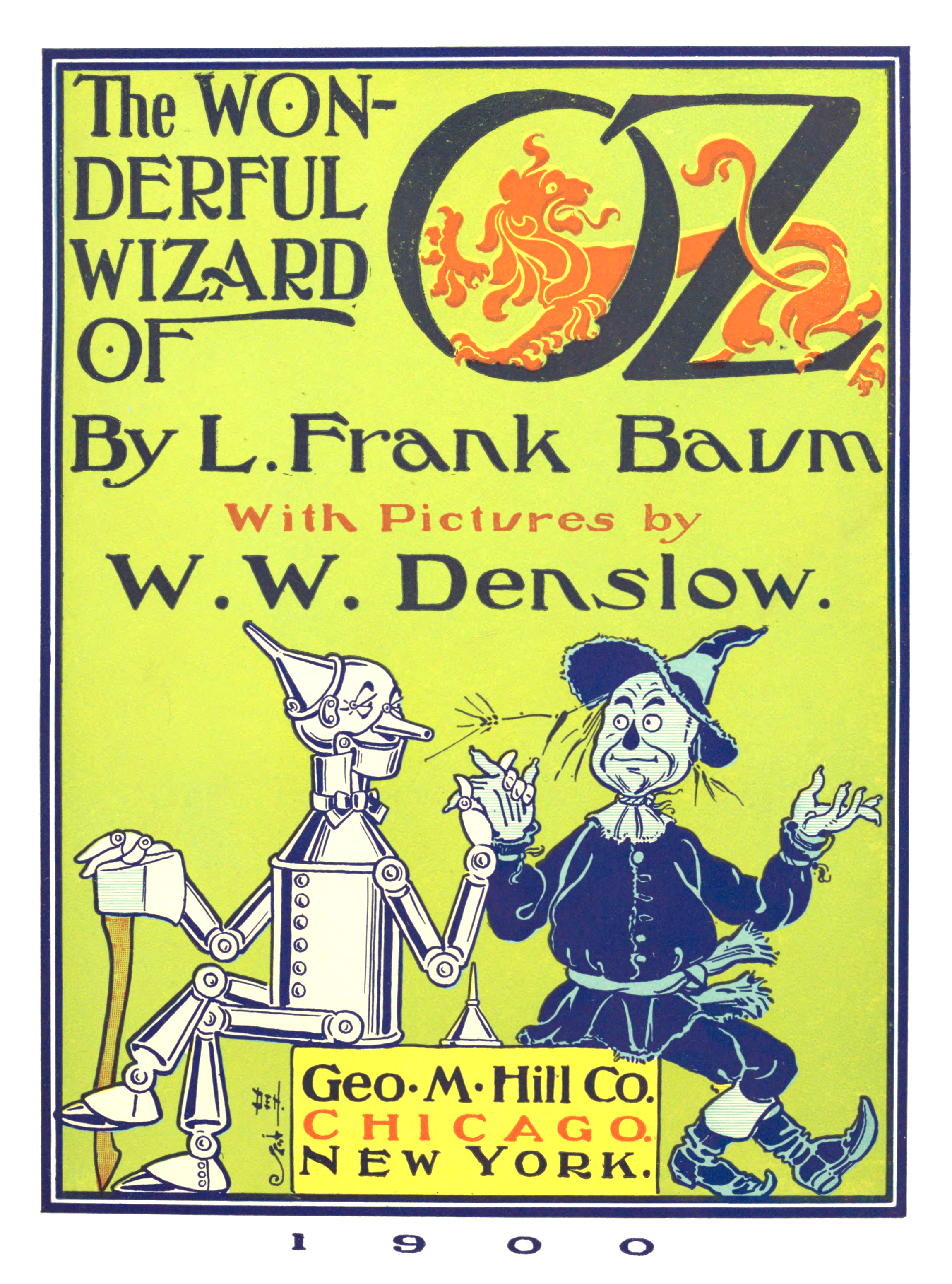 The title page of The Wonderful Wizard of Oz, also known as The Wizard of Oz, a 1900 children's novel written by L. Frank Baum and illustrated by W. W. Denslow.